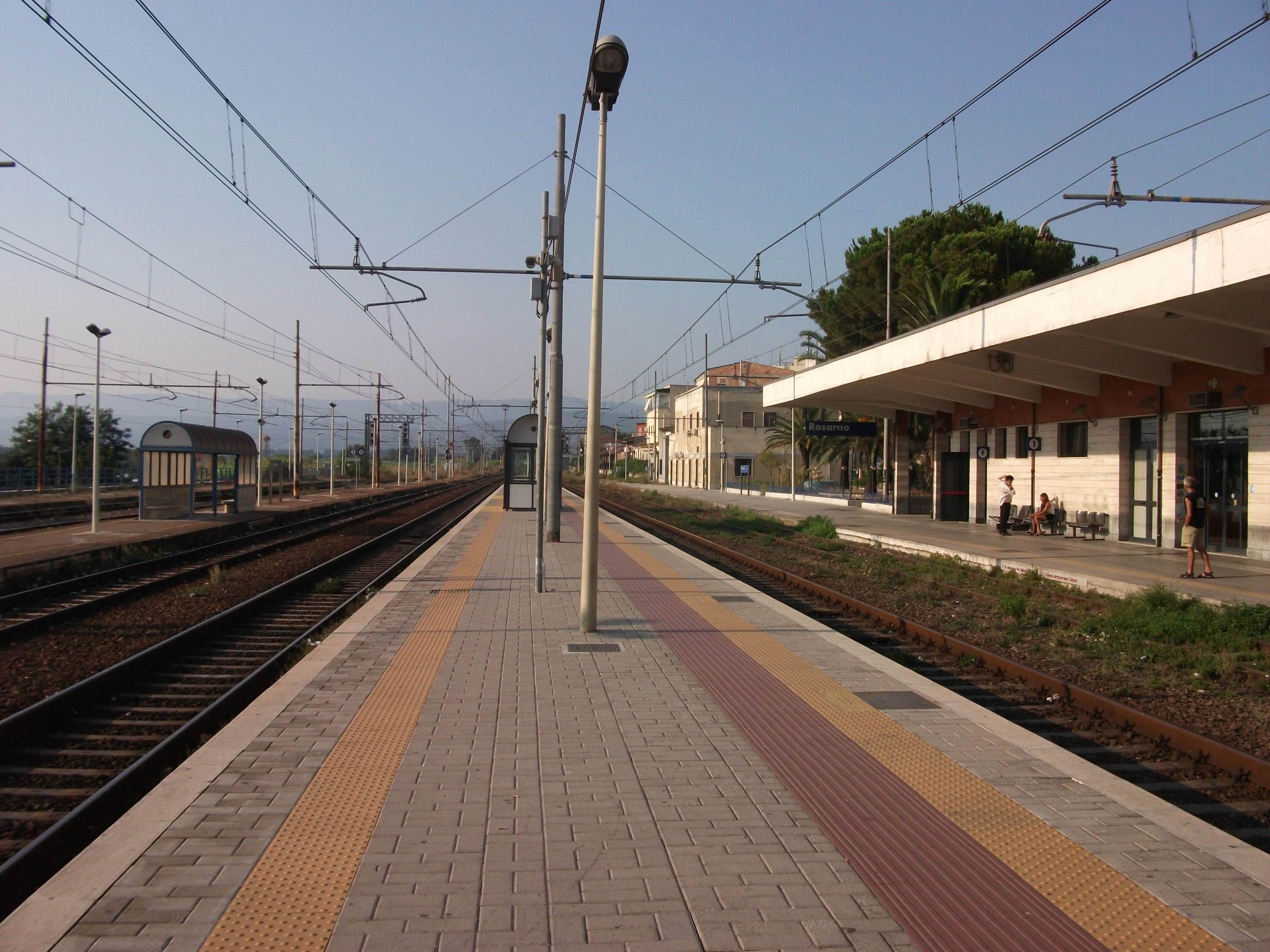 Passengers platform for tracks 2 and 3 of Rosarno RFI Station